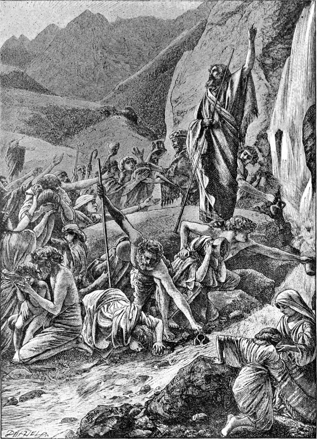 Moses Has Struck the Rock with His Rod, and Water Is Coming Out. Caption: "Moses has struck the rock with his rod, and water is coming out. For the people had no water to drink. Then God told Moses to strike the rock, and he said the water would come. So Moses struck the rock with his rod, and water came out of it, enough for all the Israelites to drink. They are catching it in bowls and cups and drinking it. For they are thirsty, and weak, and sick, because it has been so long since they had any water. God was good and kind to the Israelites to send them water out of the rock. He never forgets to be kind to his people." Illustration from the 1897 Bible Pictures and What They Teach Us: Containing 400 Illustrations from the Old and New Testaments: With brief descriptions by Charles Foster